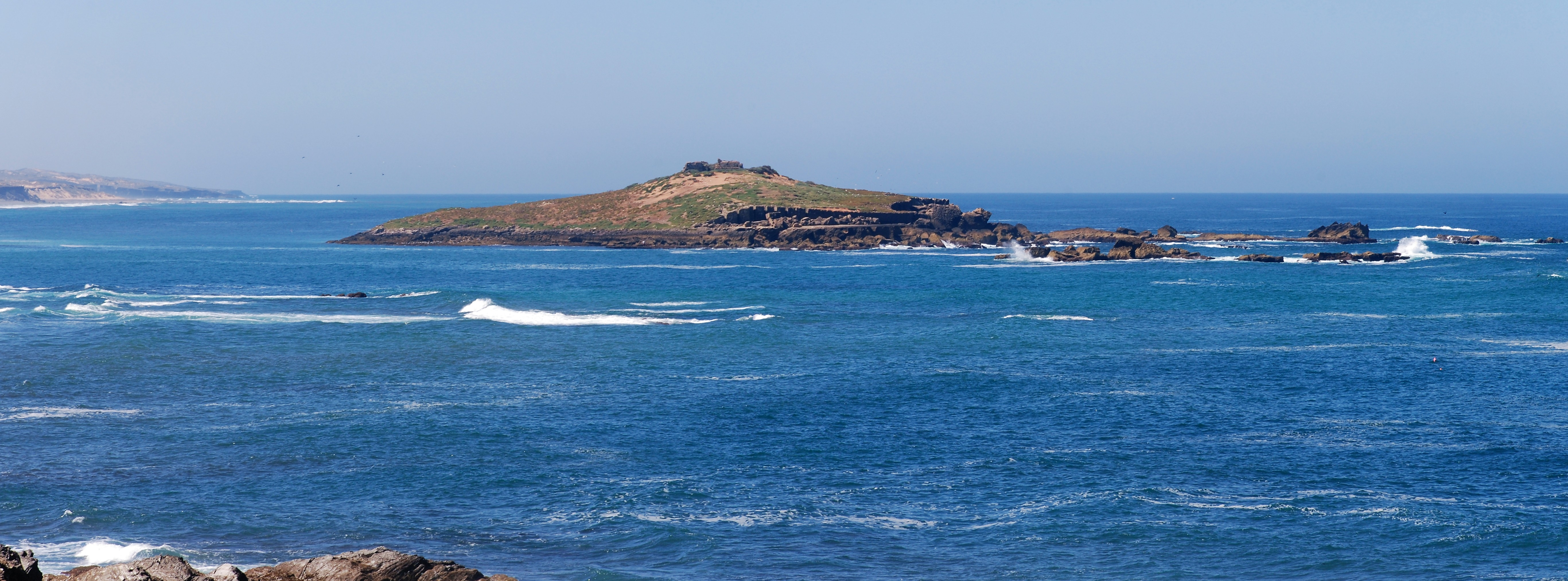 The Island of Pessegueiro, view from the north. Porto Covo, west coast of Portugal.